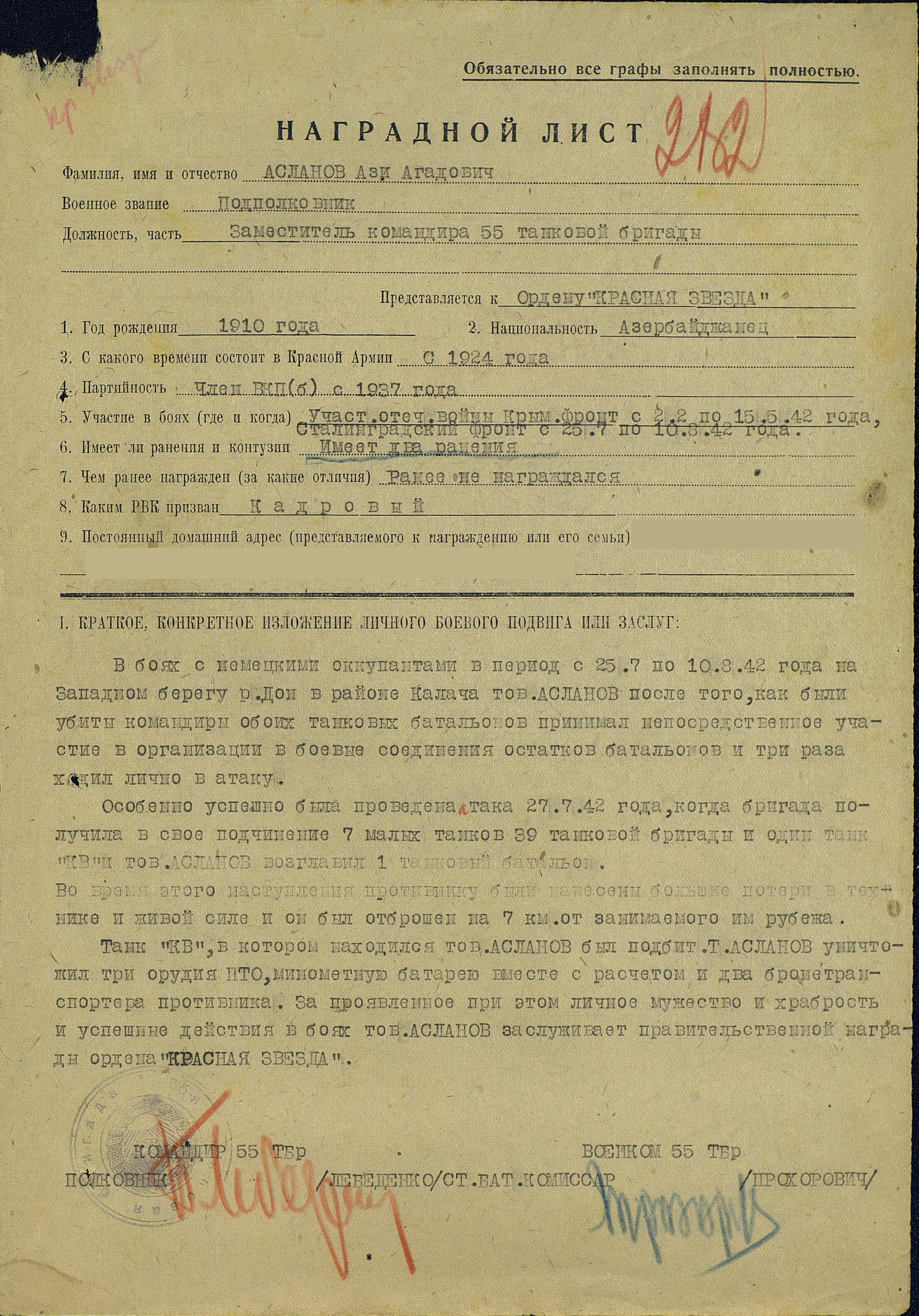 Gold Star Order's order of Hazi Aslanov